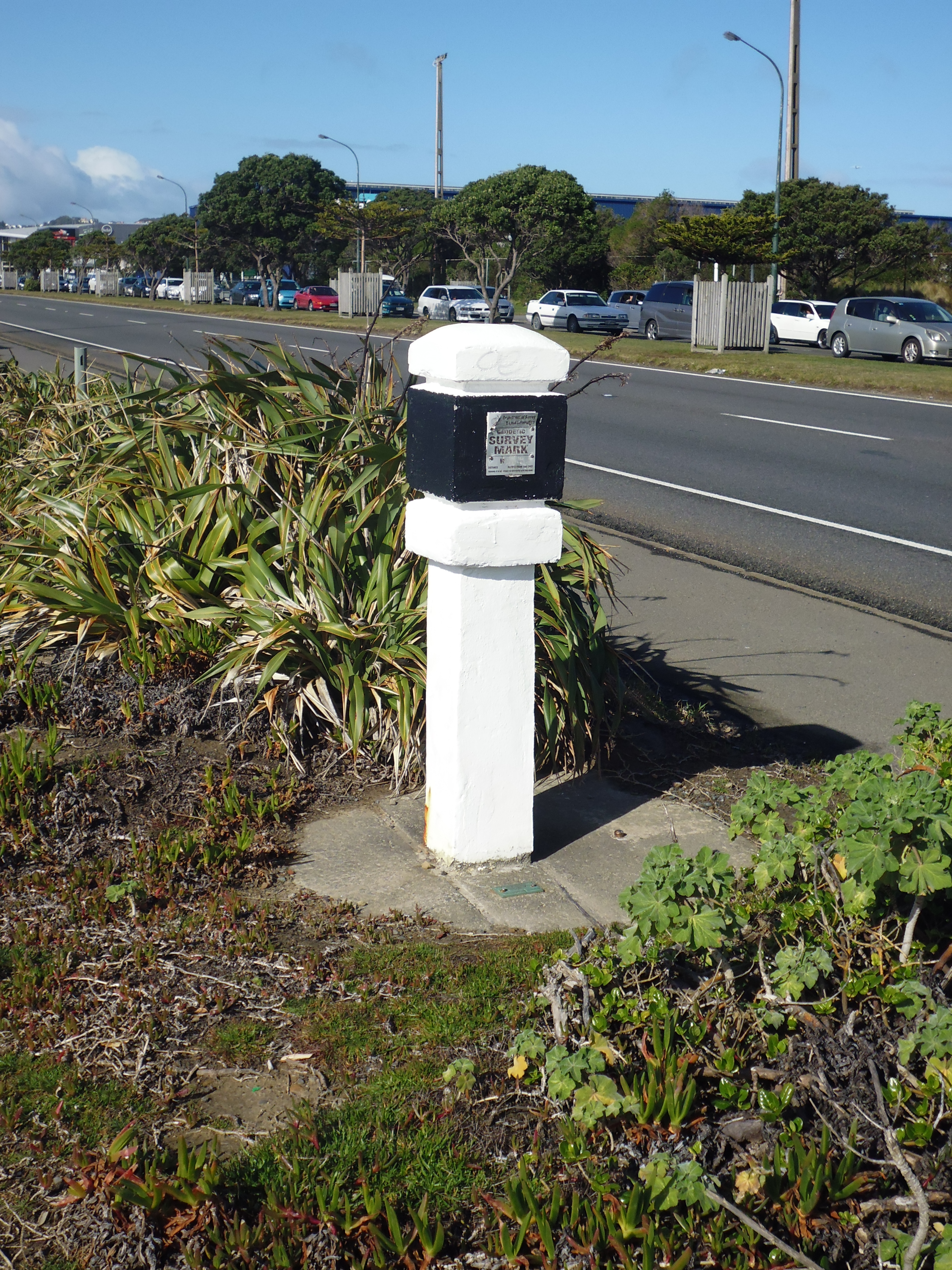 A geodetic survey mark in Wellington, New Zealand.